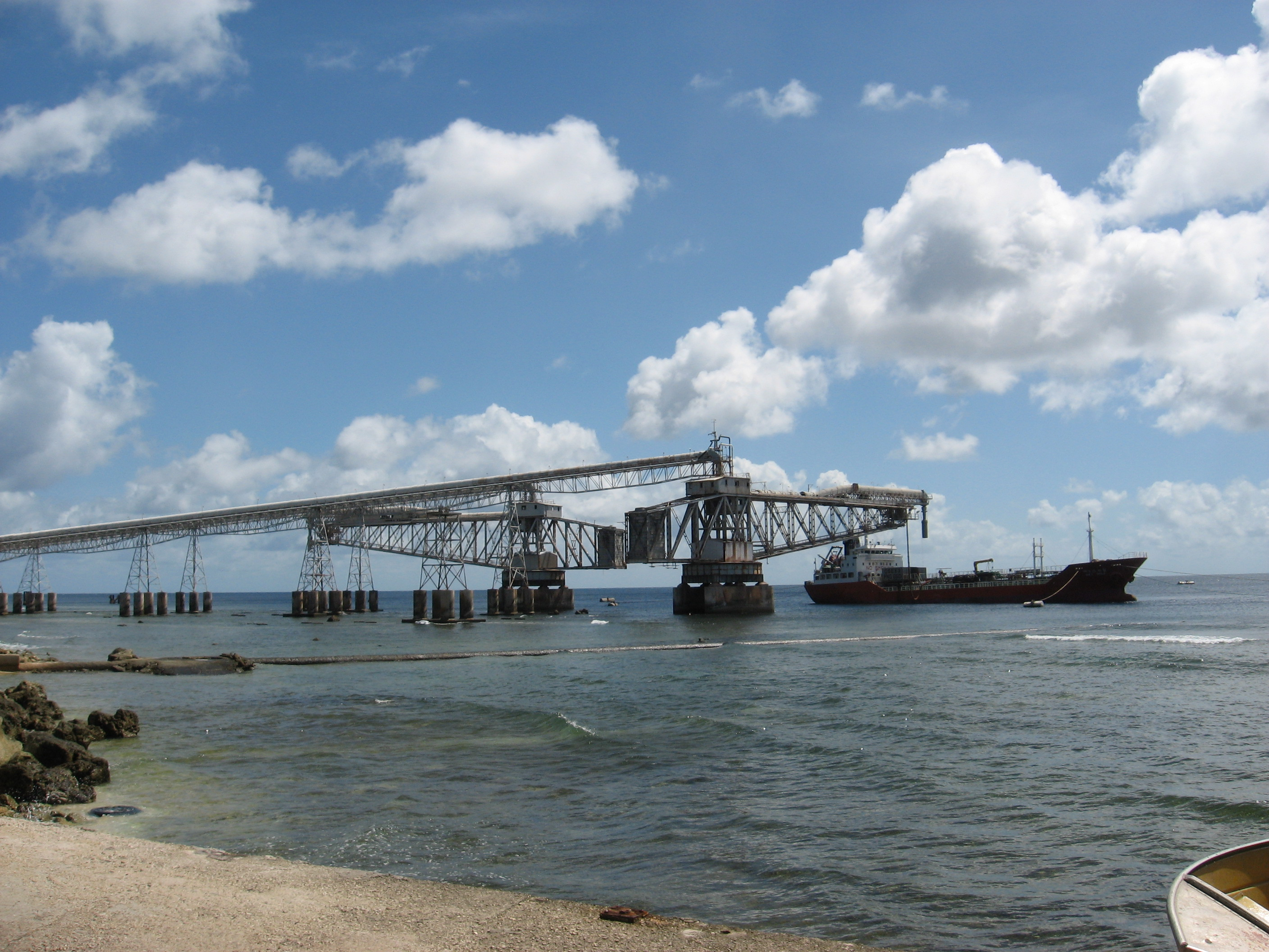 Nauru